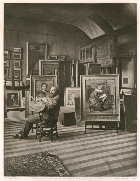 Valentine Cameron Prinsep (1838–1904), Photogravure, 218 X 166 mm